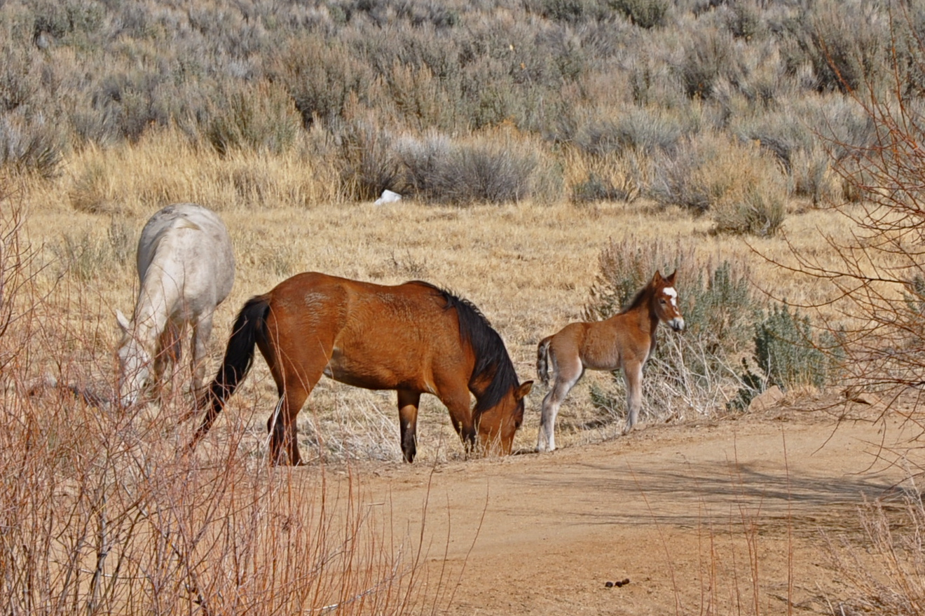 The resident herd at Carson River Park, Carson City, NV added a new member this spring. One senior local said that he has been observing this herd for 20 years.